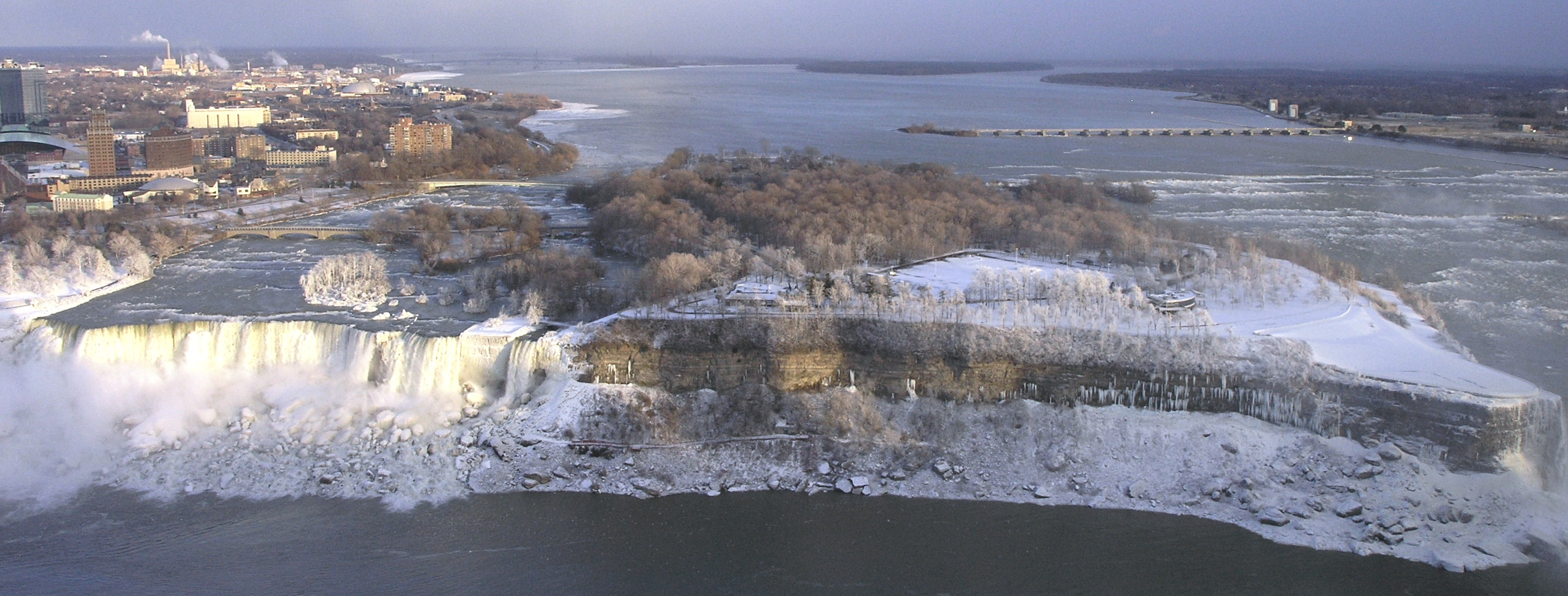 American Falls and Goat Island in winter from Skylon Tower.